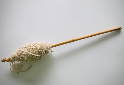 Drop spindle from Egypt.